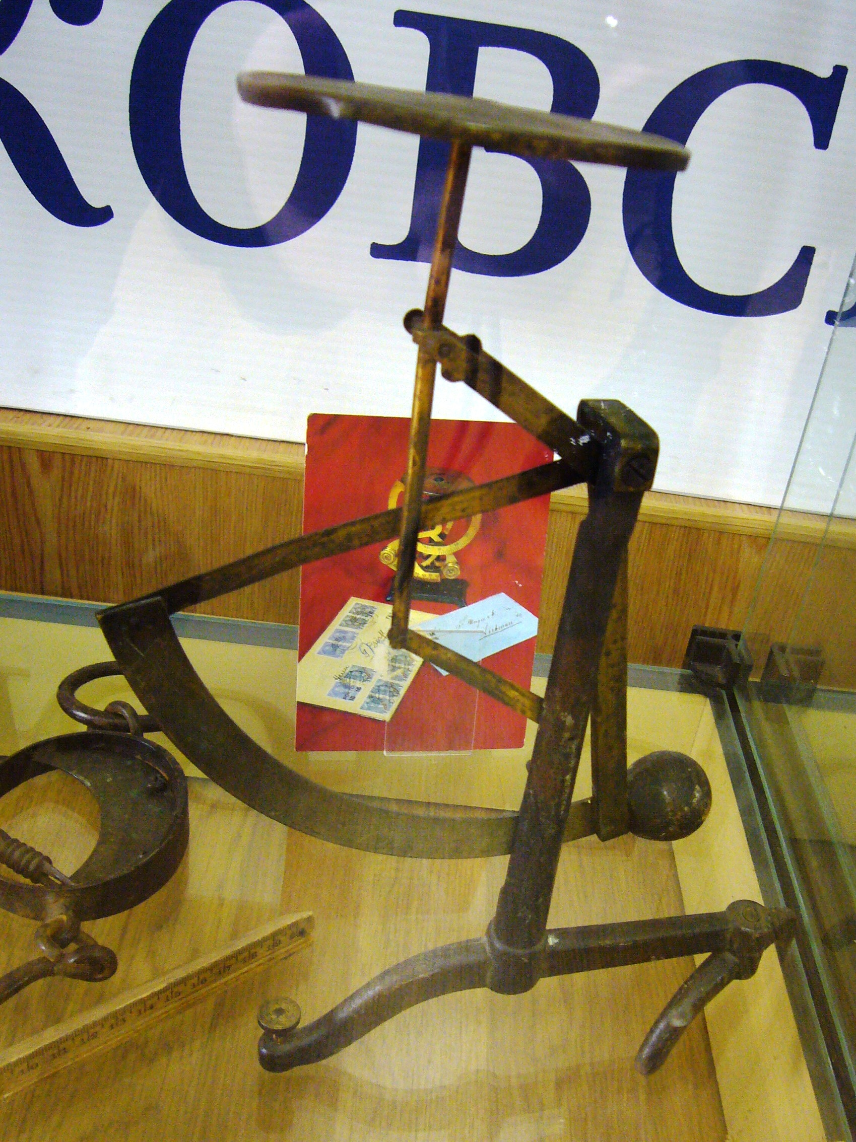 Old letter balance. Postal Museum, Moscow, Russia.